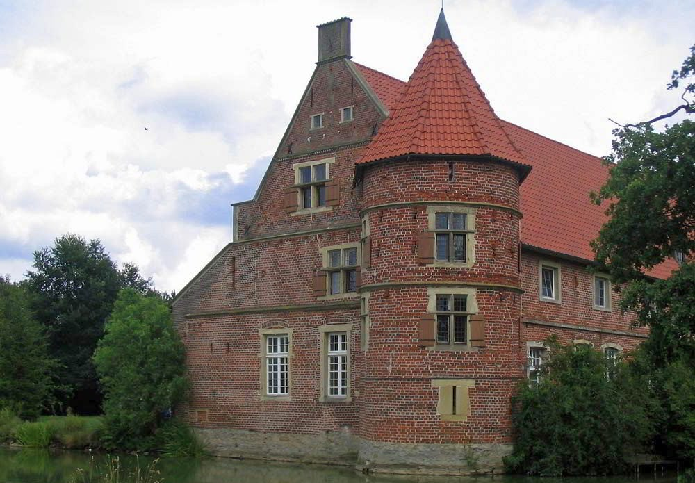 Haus Vögeding, Münster-Nienberge